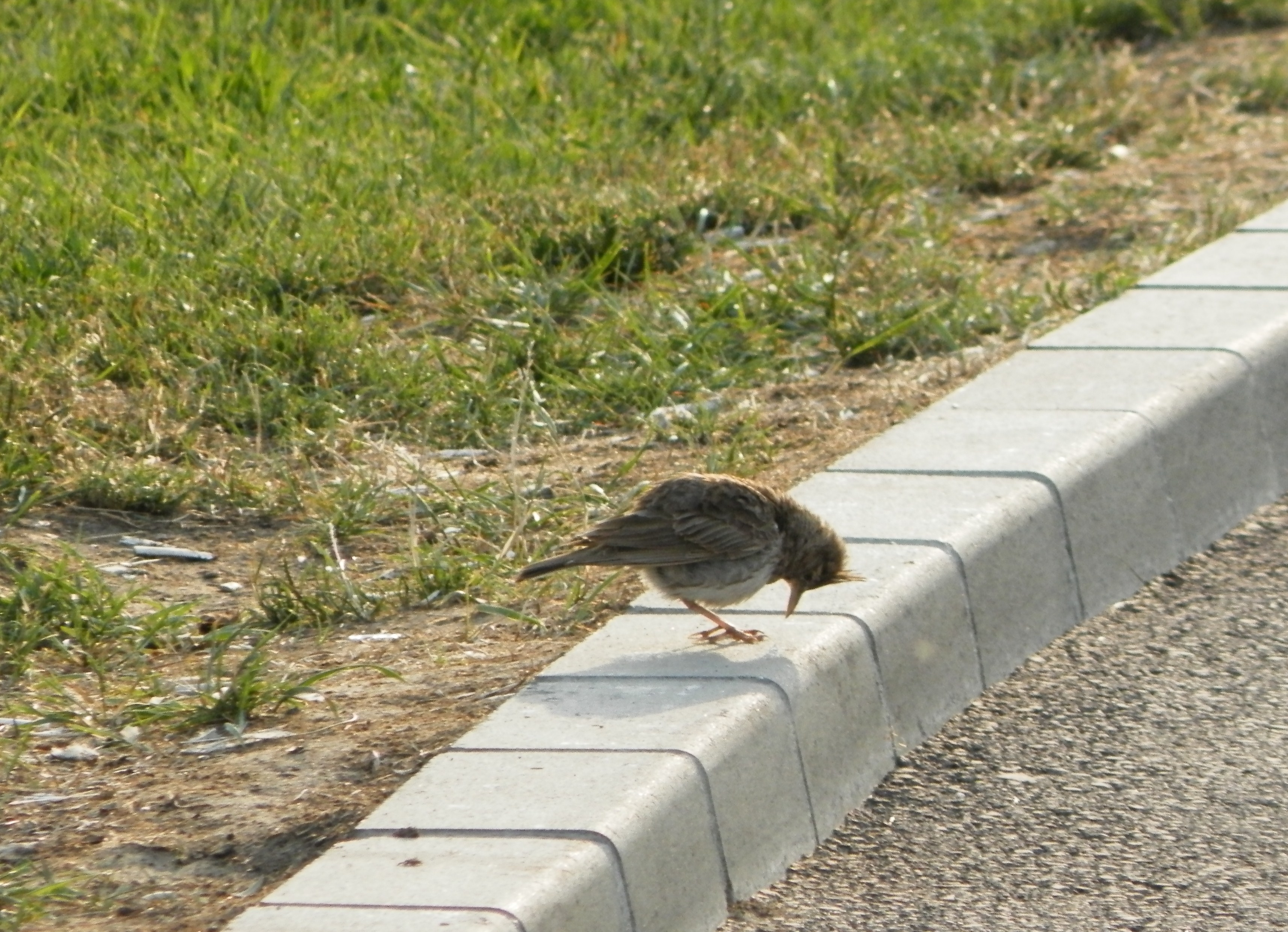 Galerida cristata